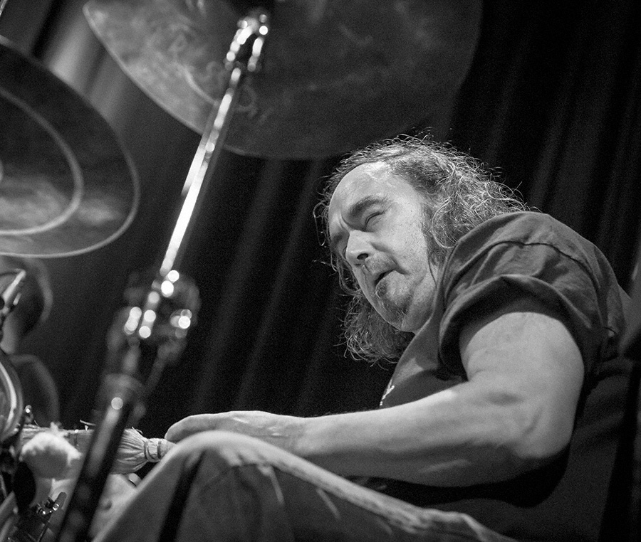 Paolo Vinaccia performs with Mike Mainieri and Bendik Hofseth at Cosmopolite Scene in on 04 May 2016. Lineup:Mike Mainieri (vibraphone)Bendik Hofseth (tenor saxophone)Jørn Øien (piano)Bruno Raberg (double bass)Sidiki Camara (percussion)Carl Størmer (drums)Jacob Young (guitar)Helge Iberg (piano)Paolo Vinaccia (percussion)